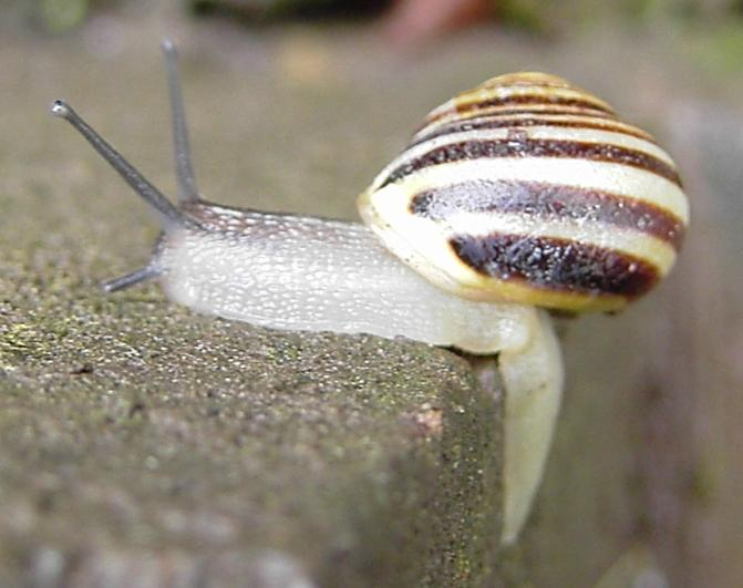 Cepaea hortensis climbing a stair in Nettersheim, Germany.